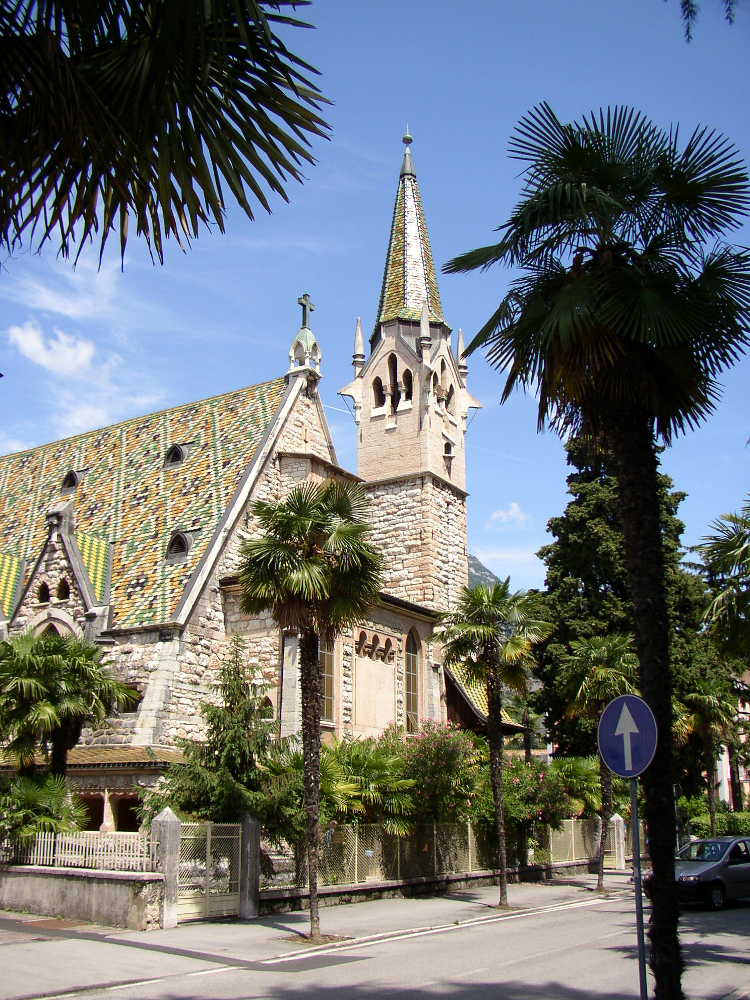 St. Trinitatis Church in Arco, initiated 1900 (Protestant church of Meran), architect: Heinrich Fricke